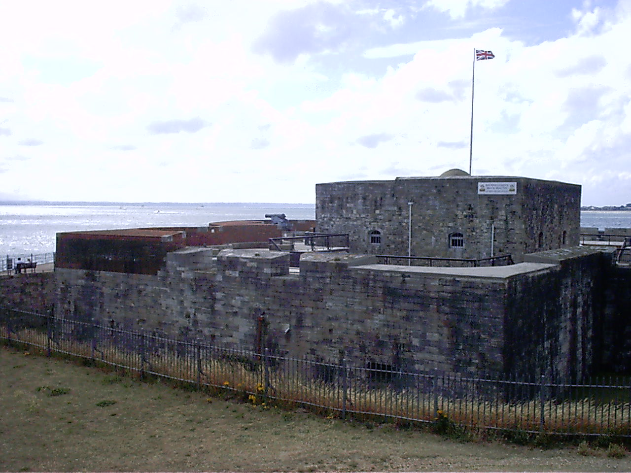 Southsea Castle in Portsmouth